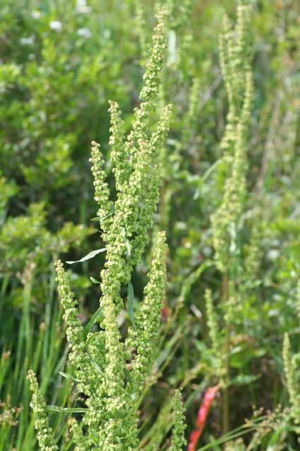 (en) (Gb)Curled Dock, (Us)Curly Dock (Rumex crispus), a photography originating of the internet site The accord of the autor, H. Brisse, is here. (fr) Patience crépue (Rumex crispus), une photographie issue du site internet L'accord de l'auteur, H. Brisse, se situe ici. (it)Rómice Cavolaia ; (de)Krauser Ampfer ; (es)Acedera crispada ; (nl)Krulzuring